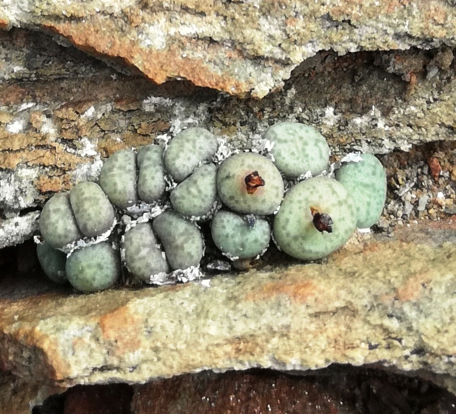 Conophytum piluliforme during wet winter